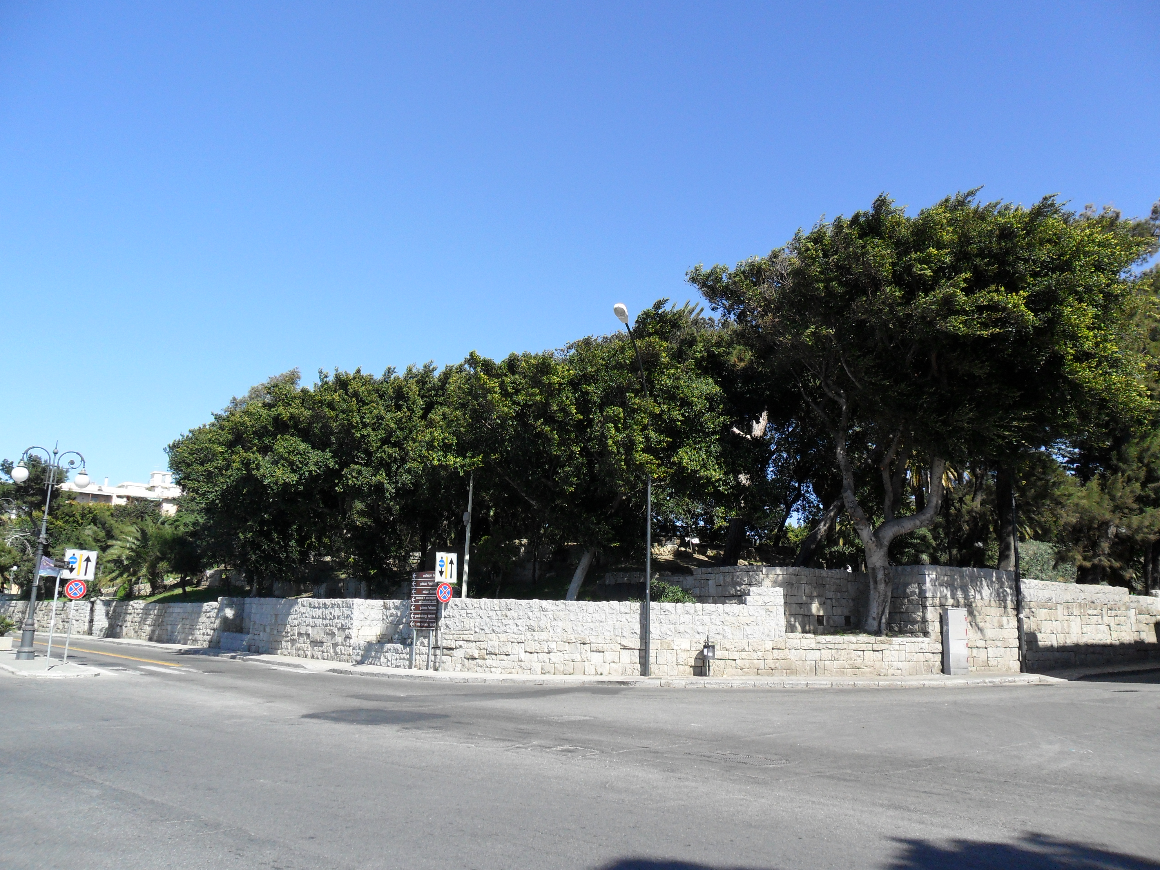 Public garden